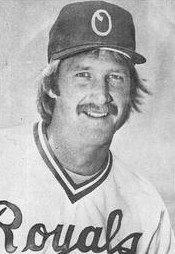 Professional baseball player Randy McGilberry